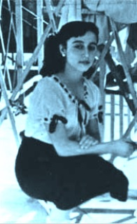 Young Fayrouz